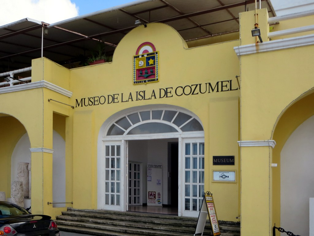 The Museo de la Isla de Cozumel is a highlight of San Miguel de Cozumel, Mexico.